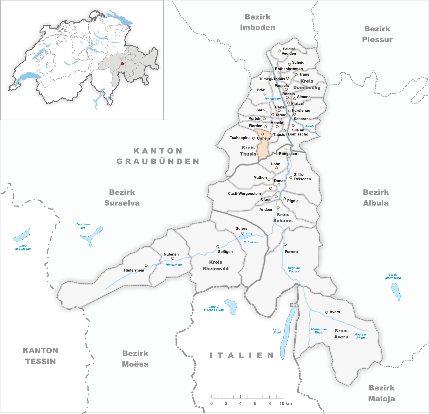 Municipality Urmein